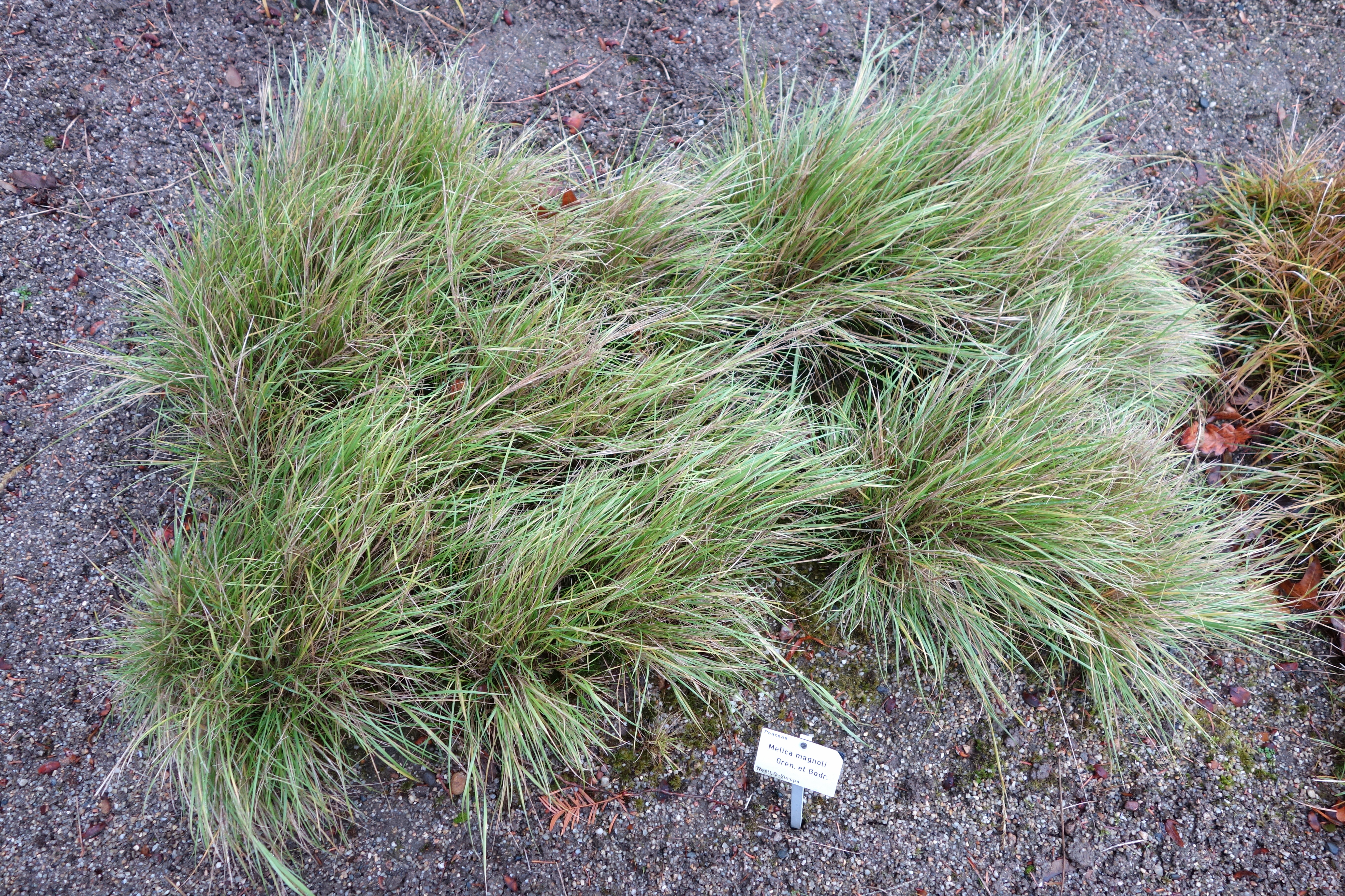 Botanical specimen in the Botanischer Garten, Dresden, Germany.